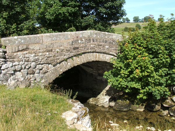 Holme Bridge. Bridge over Lyvennet Beck on Gilts Road, South of Crosby Ravensworth.